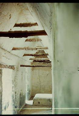 Interior room in Temple IV, Tikal Guatemala, 1957. Note original wooden beams still in place.